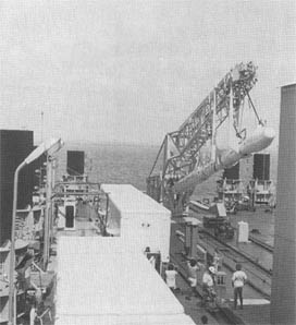 San Marco launch operation in the Indian Ocean